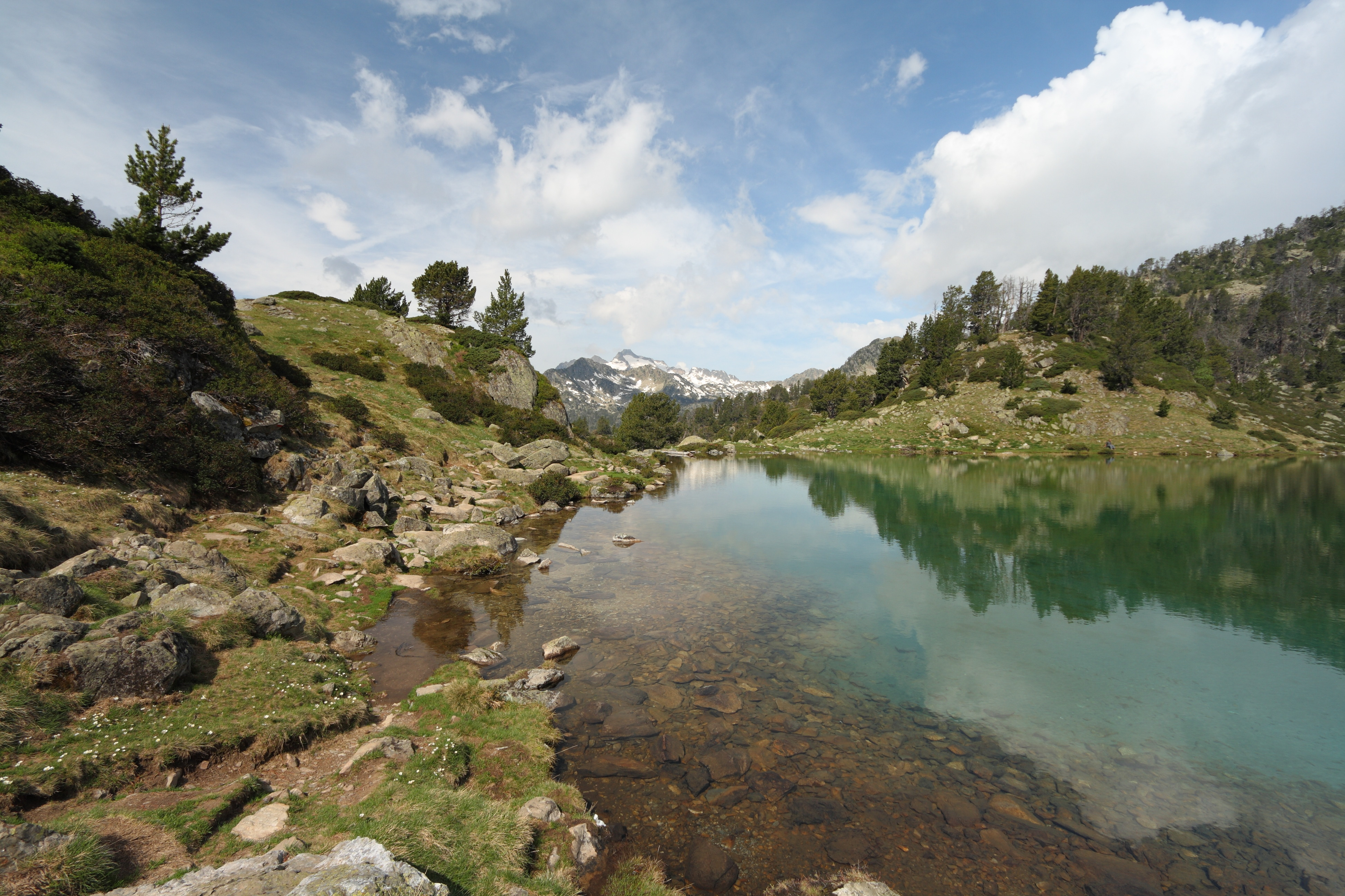 Lower Bastan lake, Hautes Pyrénées, France